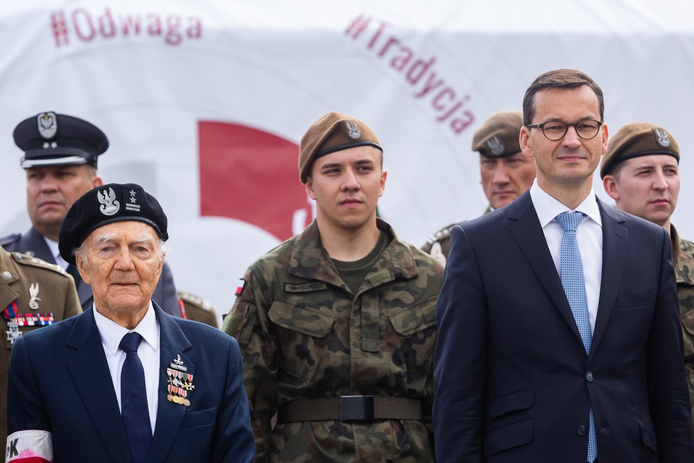 Mateusz Morawiecki during the Feast of Territorial Defense Forces.